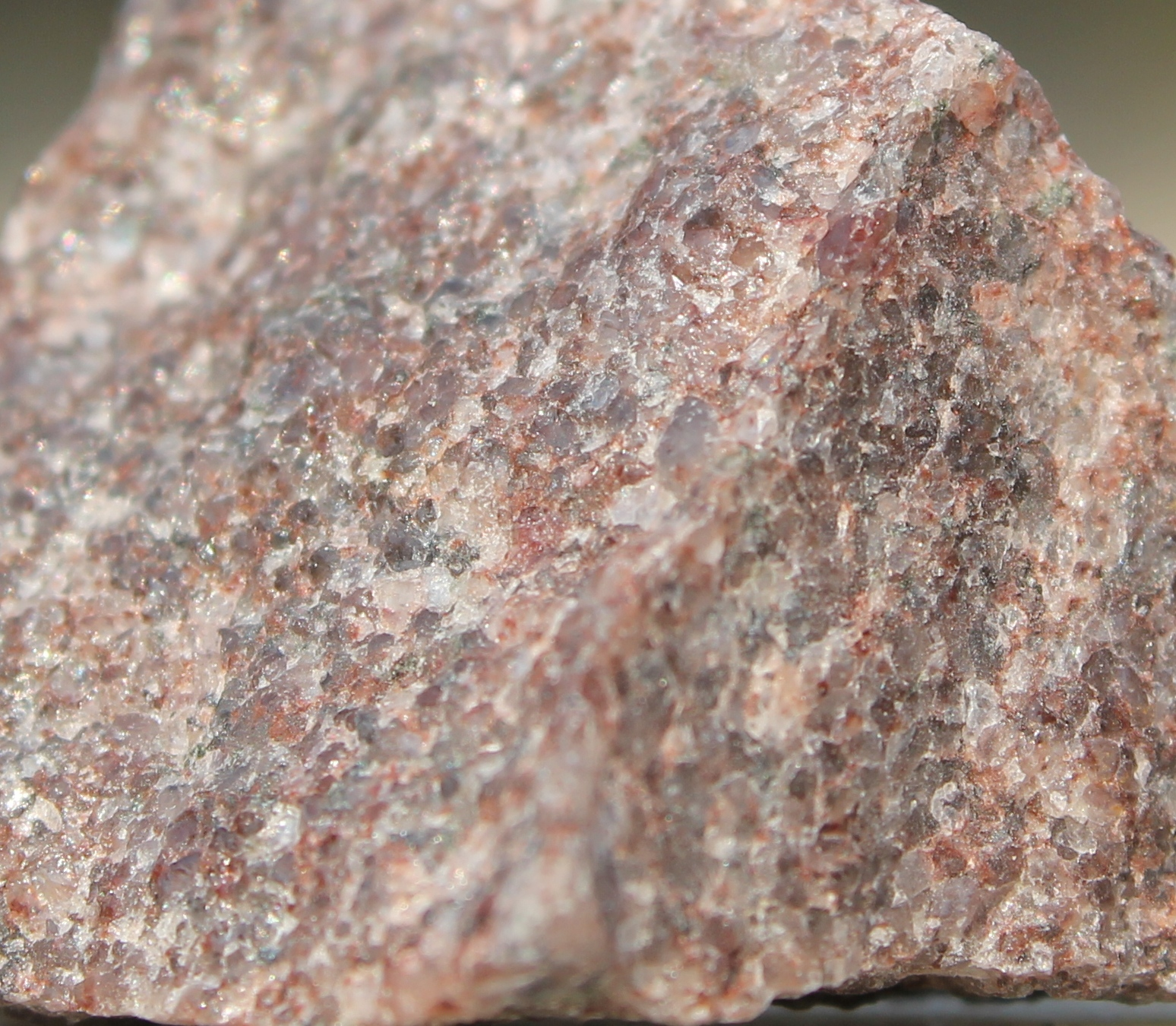 Quartzite has a grainy, sandpaper-like surface which becomes glassy in appearance